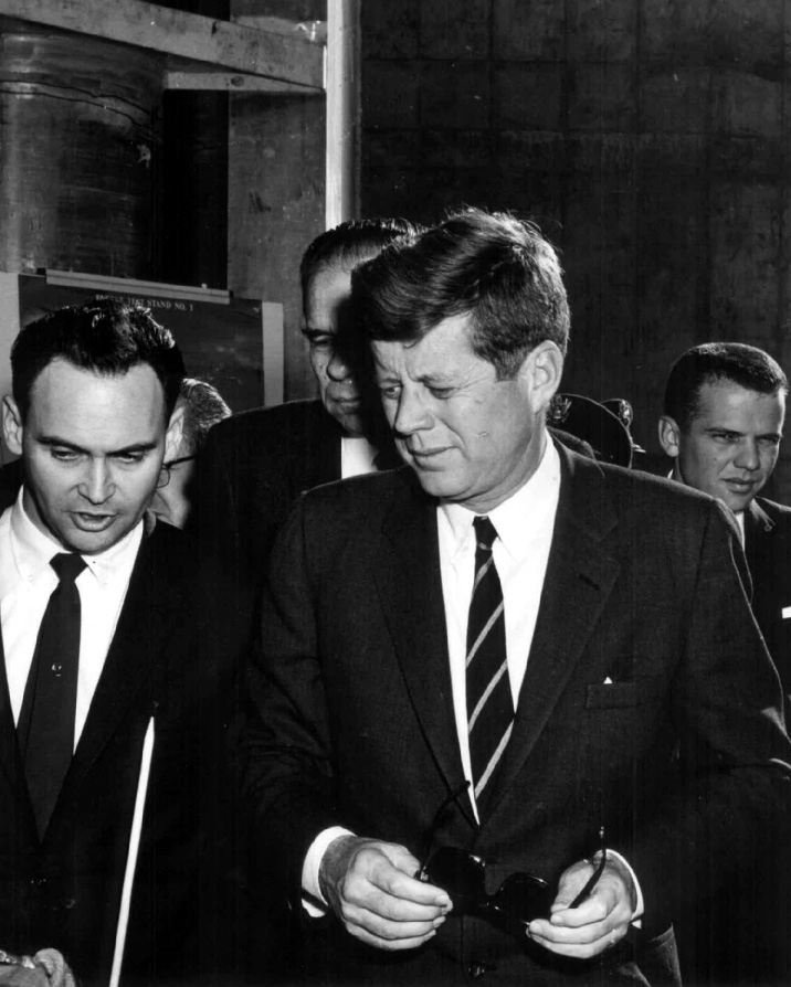 Nevada Test Site - Nuclear Rocket Development Station. President John F. Kennedy visits the Nuclear Rocket Developement Station on December 8, 1962.